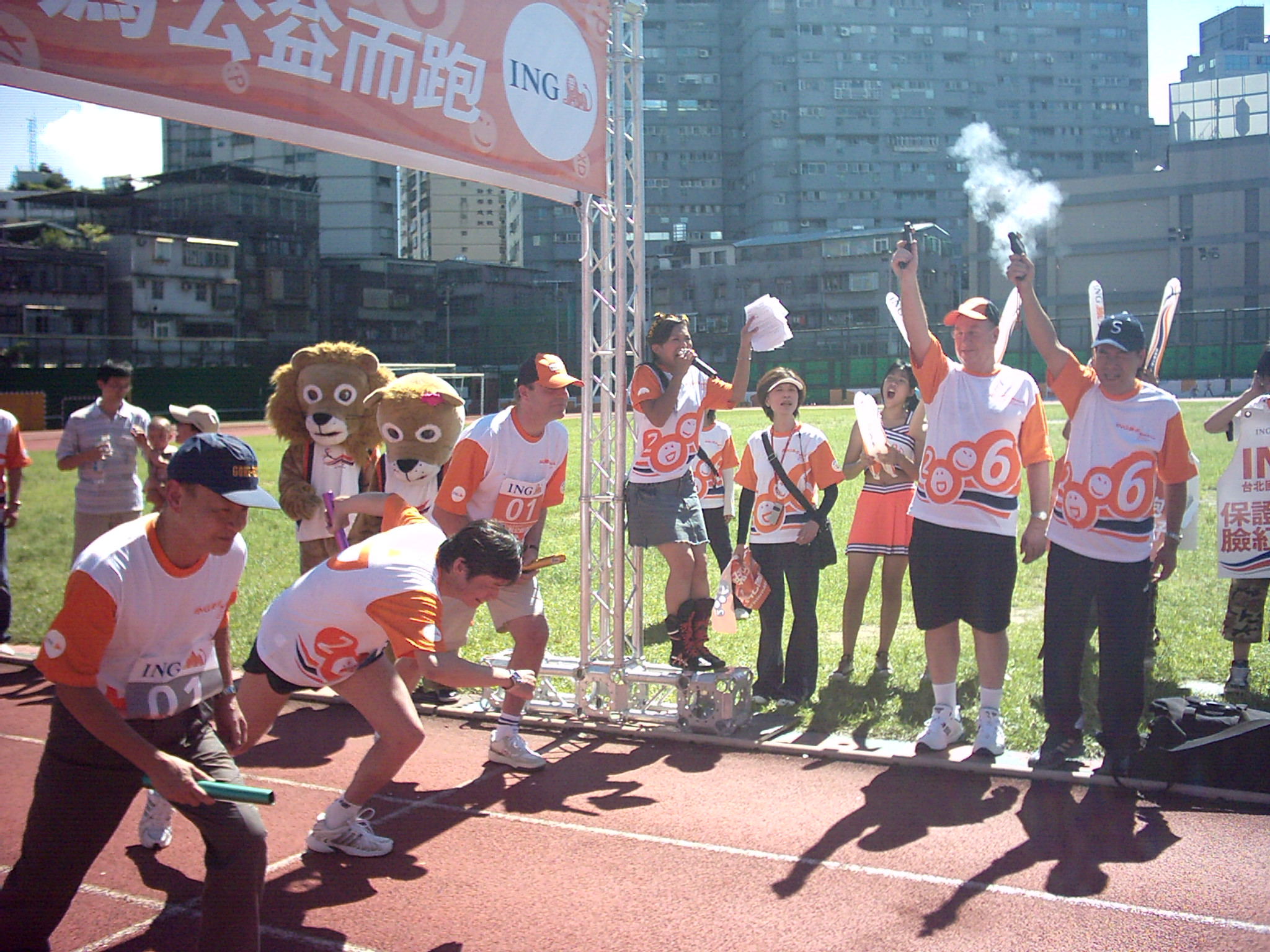 Organization Group of ING Charity Running at 2006 ING the 10th Taipei International Marathon.